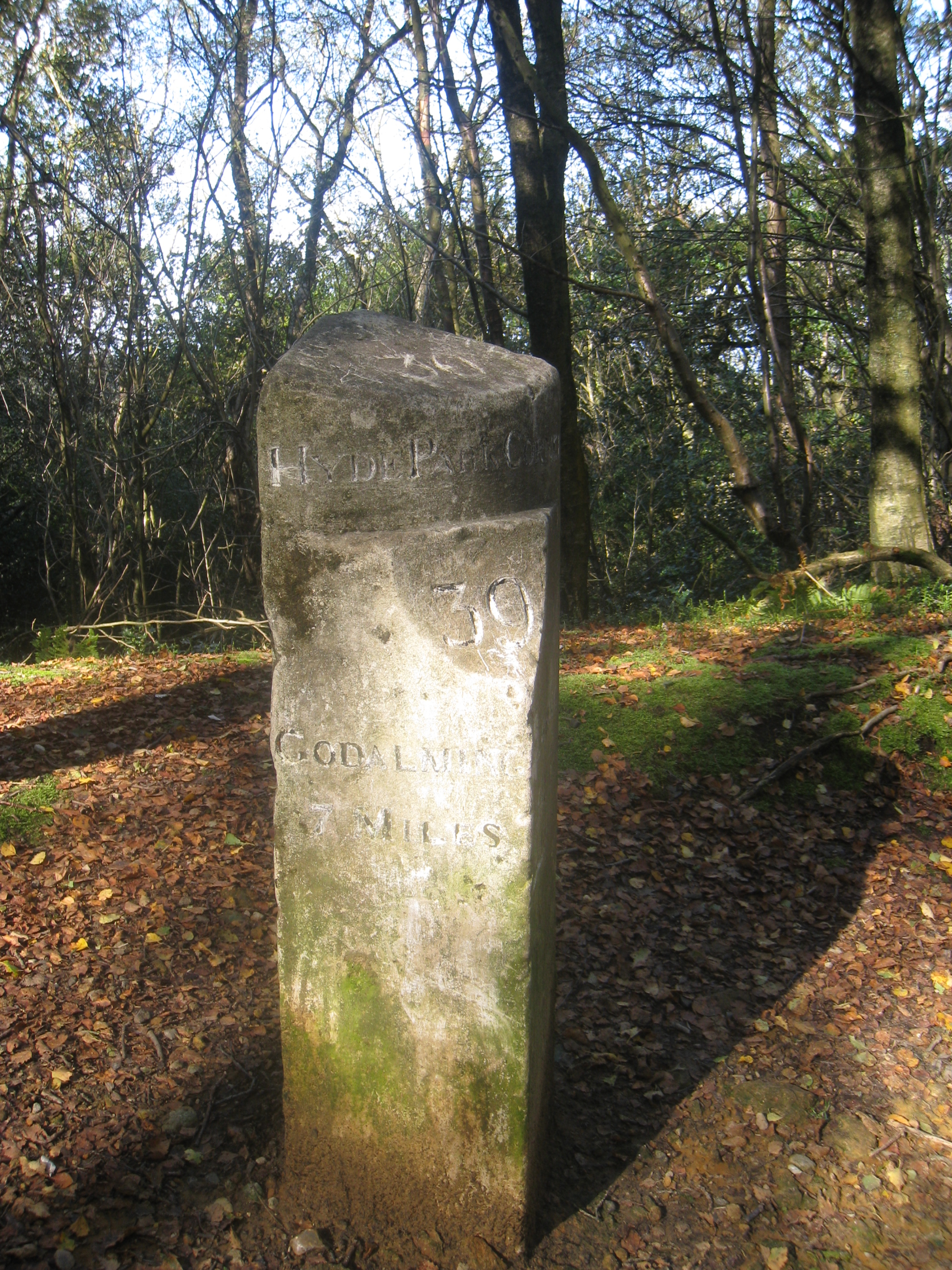 Old milestone, Gibbert Hill, Hindhead, Surry